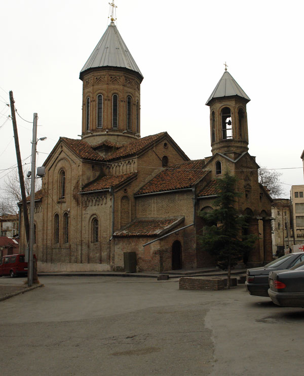 The Holy Trinity Church "Sameba" in 4 Grigol Abashidze St., Tbilisi. Built in 1790